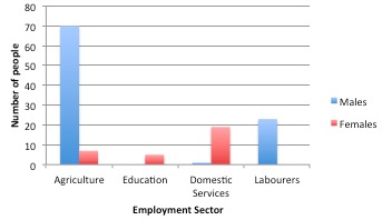 Graph showing the occupational structure in Woodlands, Dorset in 1881, as reported by the Census of Population in 1881